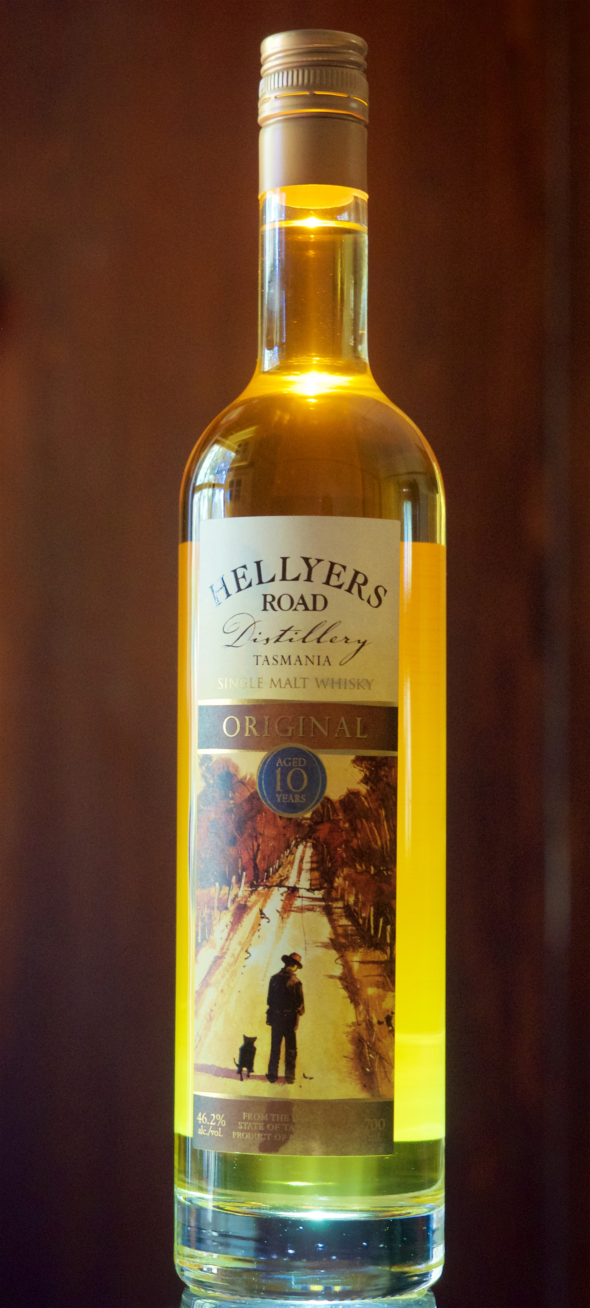 Bottle of Hellyers Road Ten Year Old Scotch Whisky